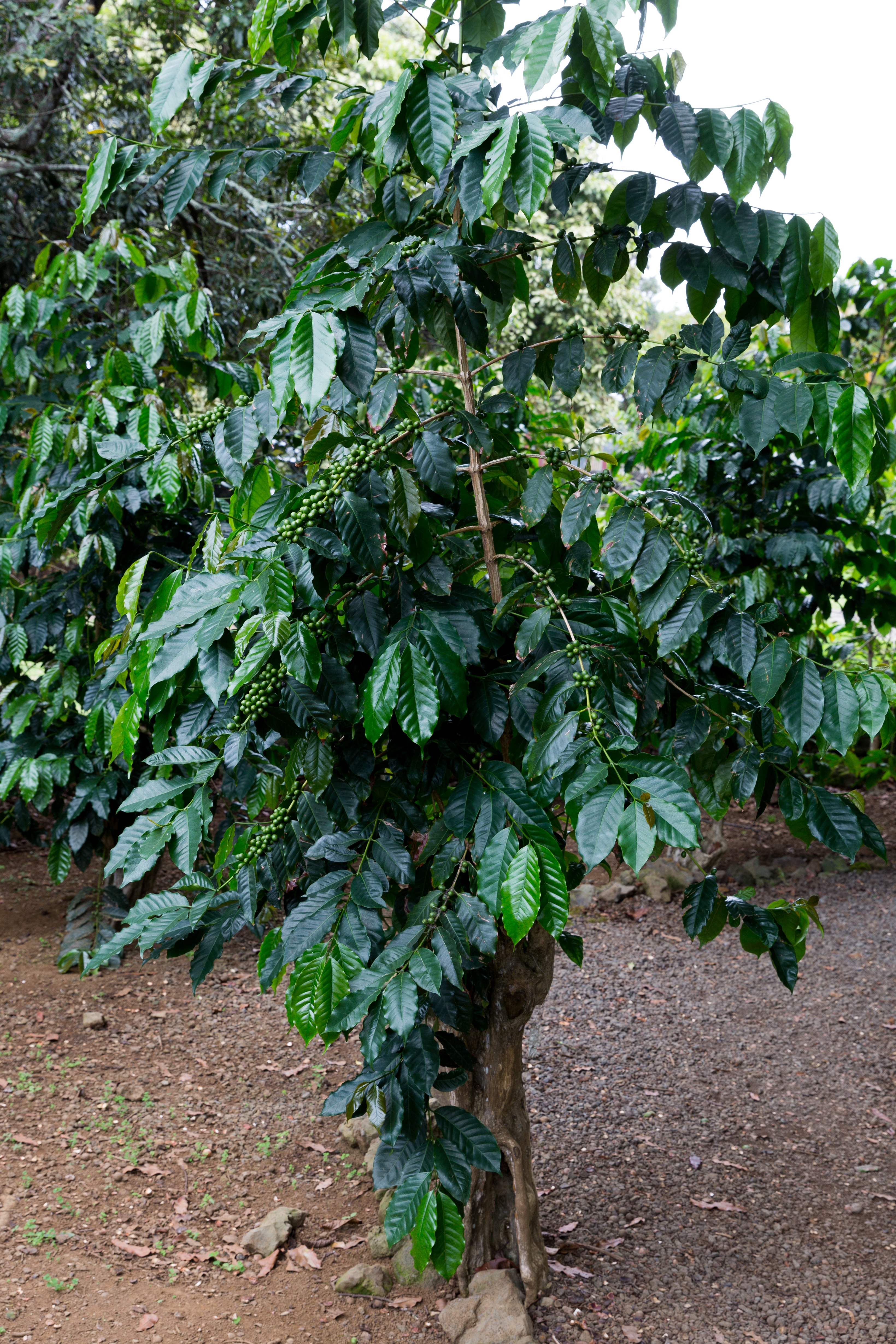 Coffee tree at Kona Coffee Living History Farm